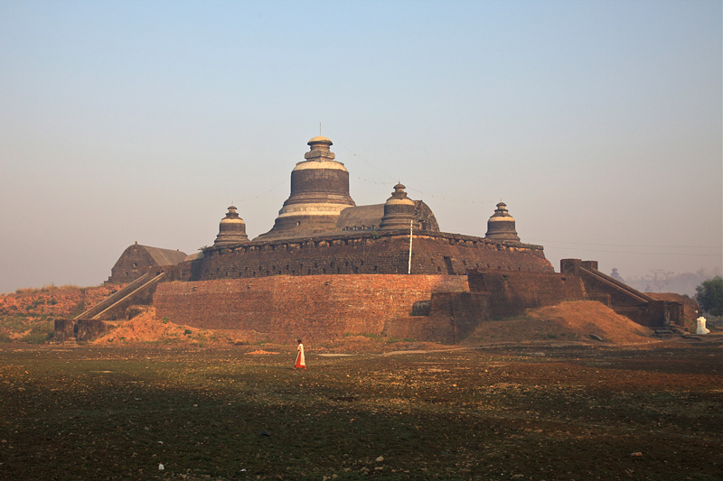 Htuk-Kan-Thein temple in Mrauk U